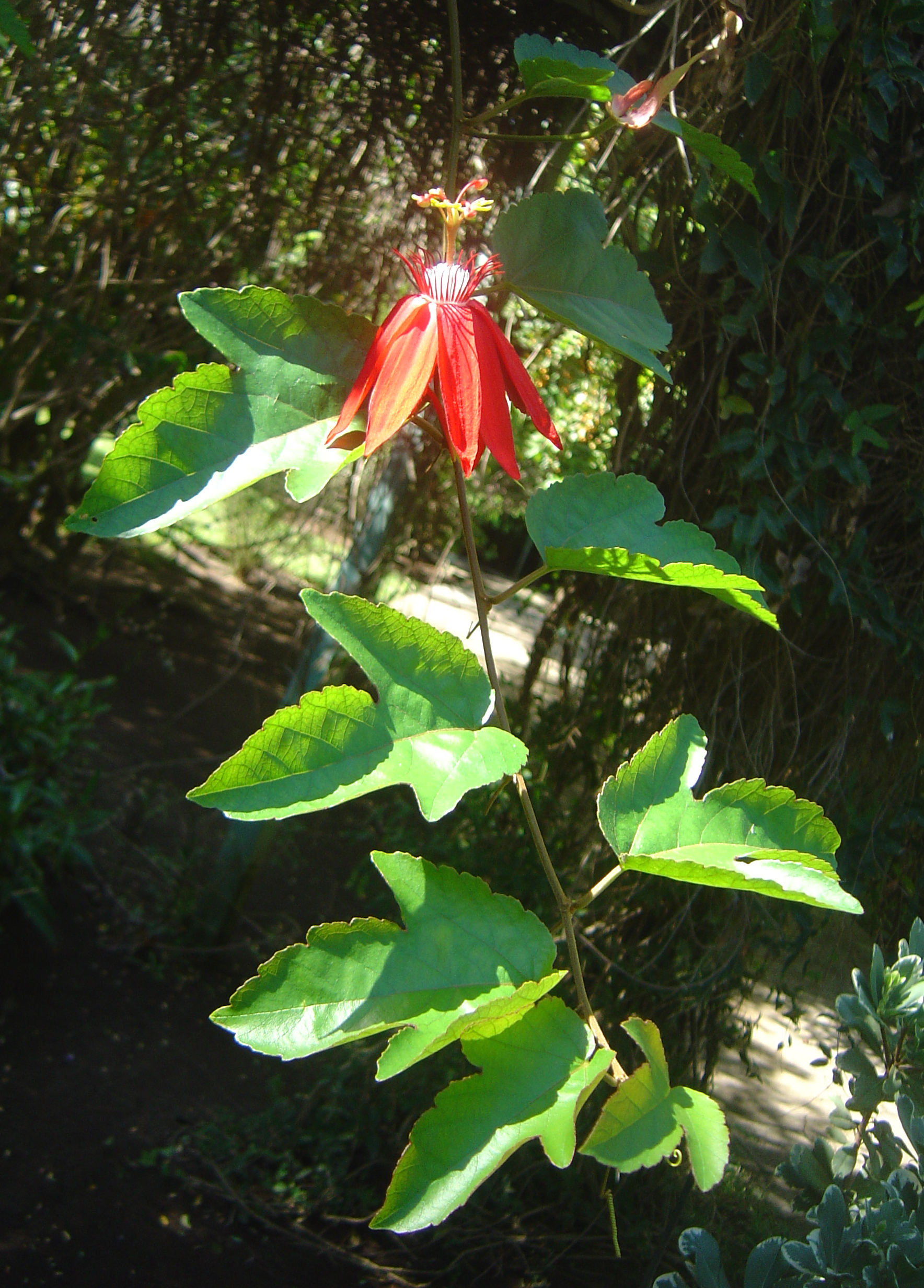 Photograph taken at the Jardin d'Éden botanical park, Saint-Gilles les Bains (commune of Saint-Paul), Réunion Island (Indian Ocean, a part of the French Republic).